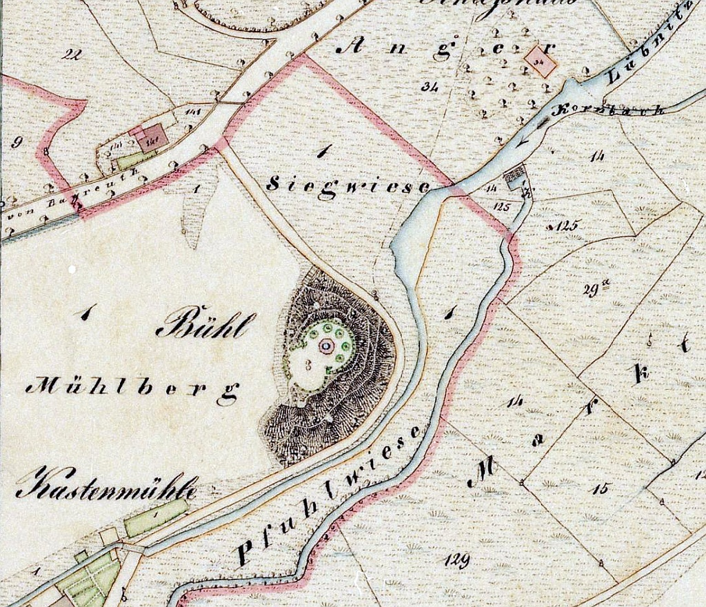 Bühl ("hill") in Gefrees, map of Uraufnahme Bayern